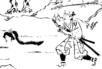 Wandering soul (女の妄念迷い歩く事) from the Sorori-monogatari (曾呂利物語)